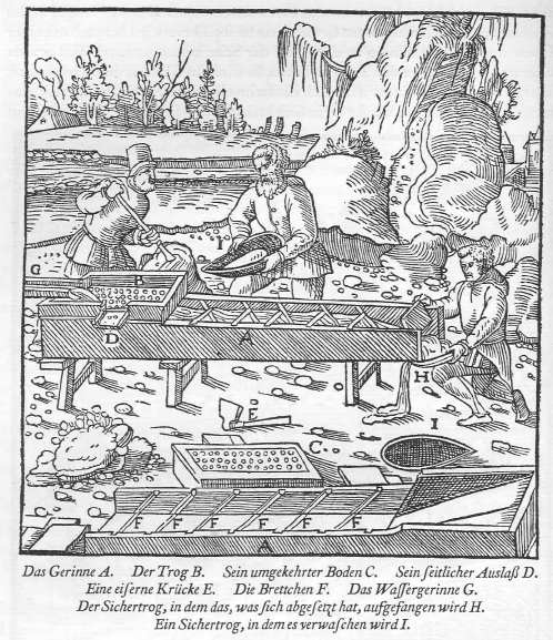 Woodcut from p.282 De re metallica. Vom Bergwerk XII Bücher. Gold panning with sluice and pan.